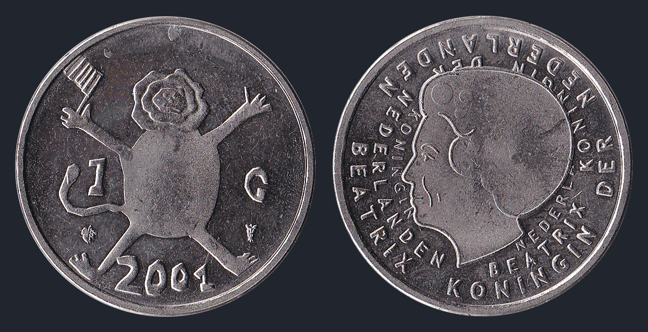 The last Dutch guilder 2001